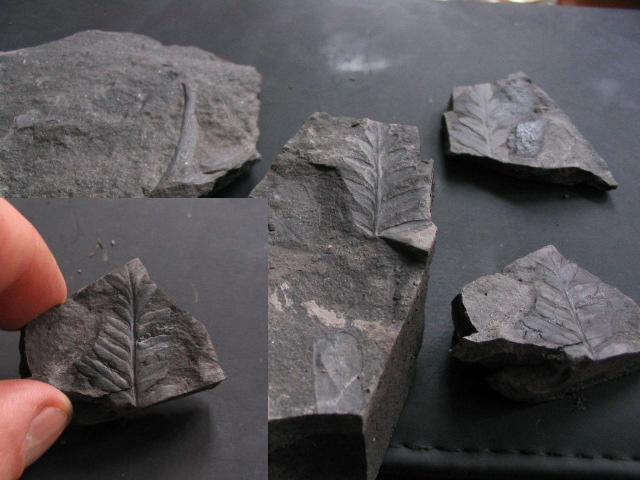 taken by myself - fossil (fern?) found on an (old) coal mine slag heap, Ans Belgium, 18jan2006